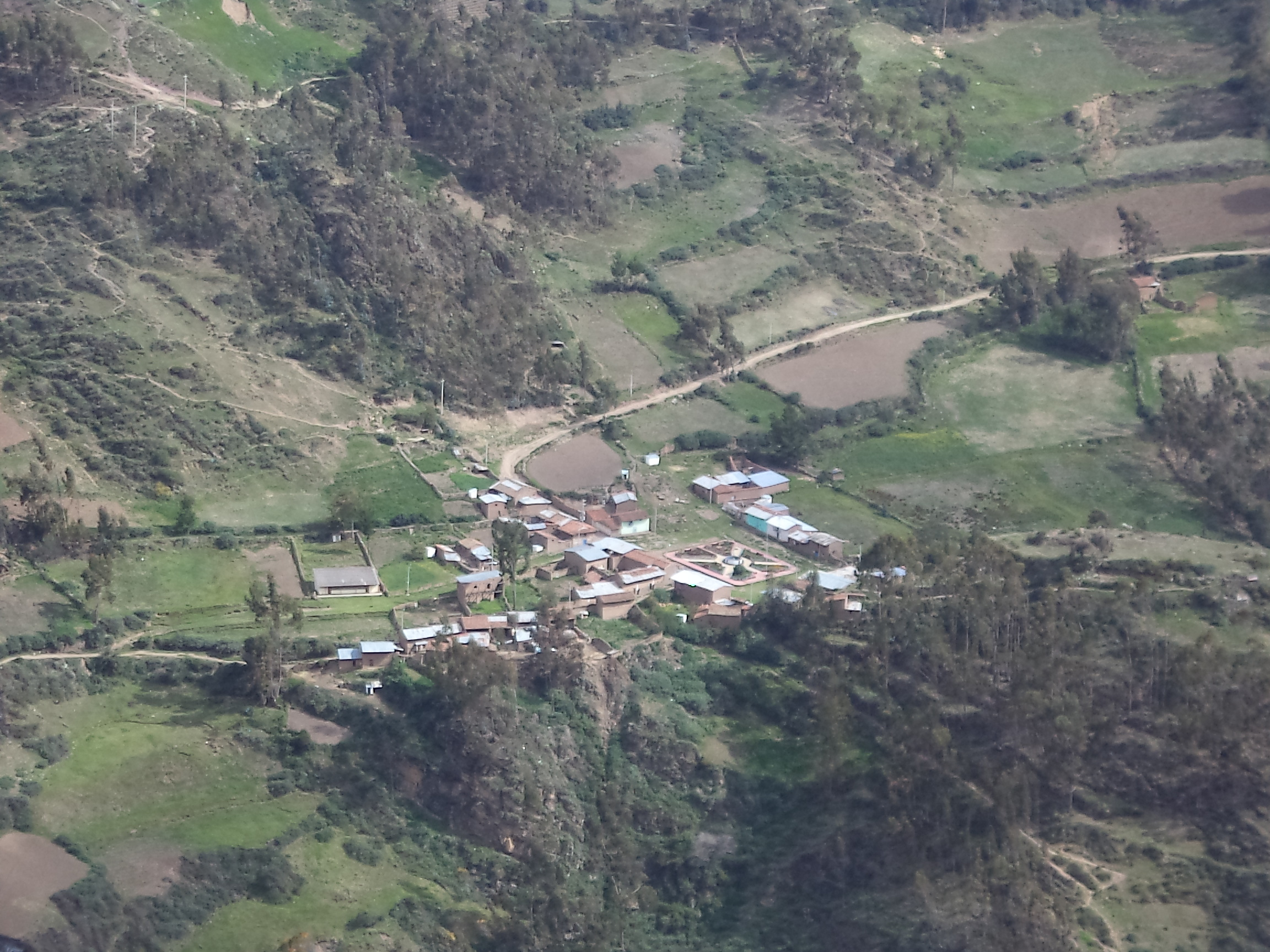 Vista panorámica